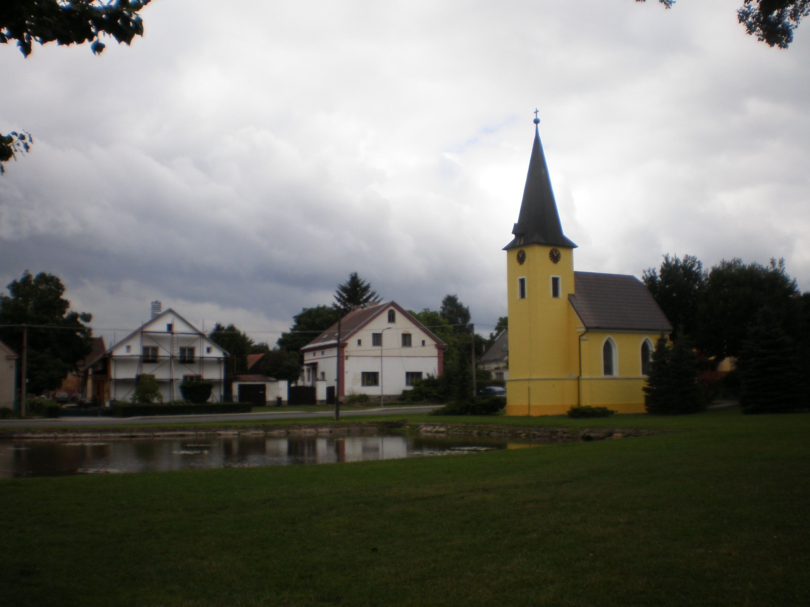 Municipality of Drmoul, Cheb District, Czech Republic.